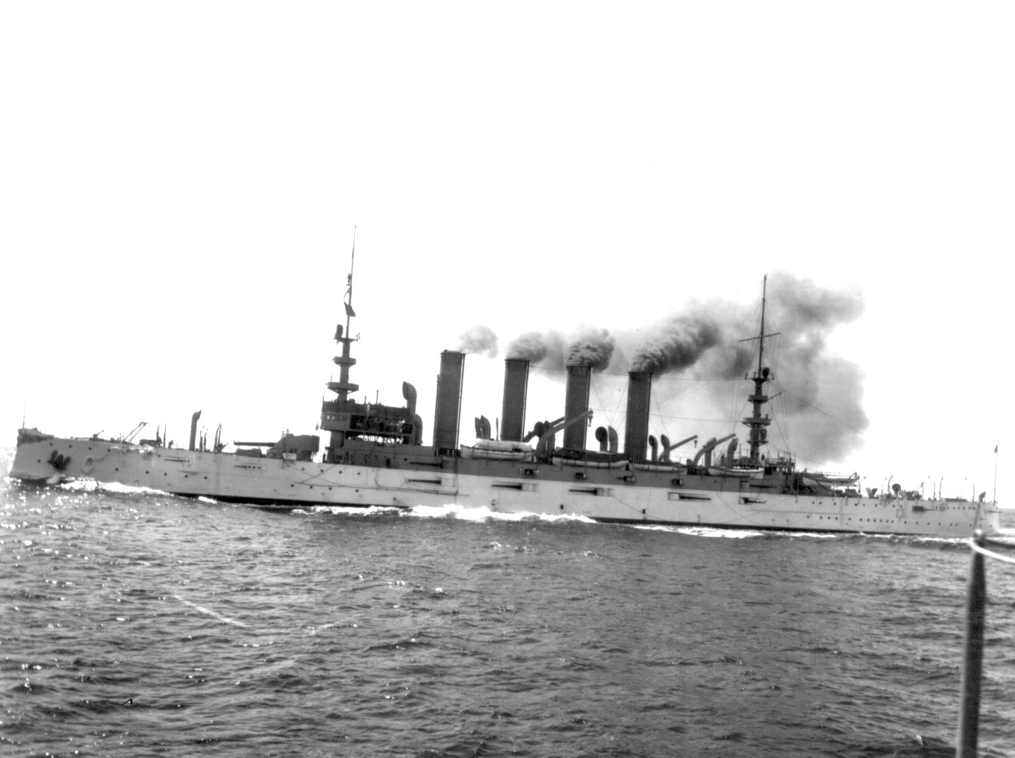 US Navy Pennsylvania-class armored cruiser USS Colorado (ACR-7)